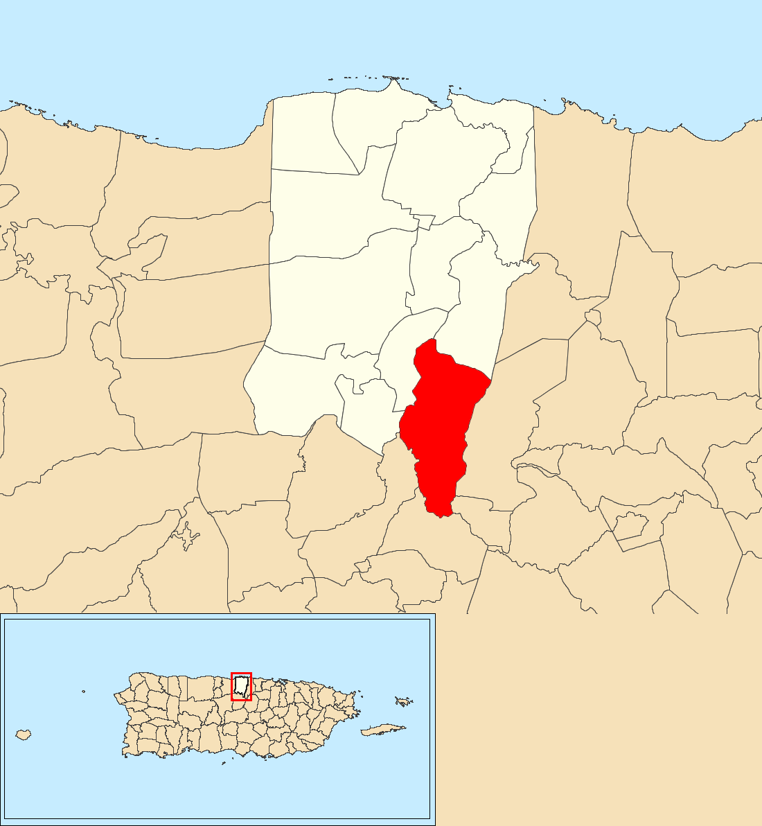 Almirante Sur, Vega Baja, Puerto Rico locator map